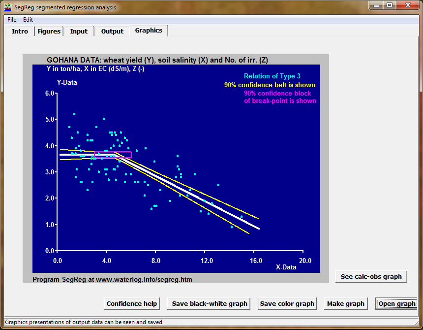 Graphics tab sheet of SegReg software for segmented regression